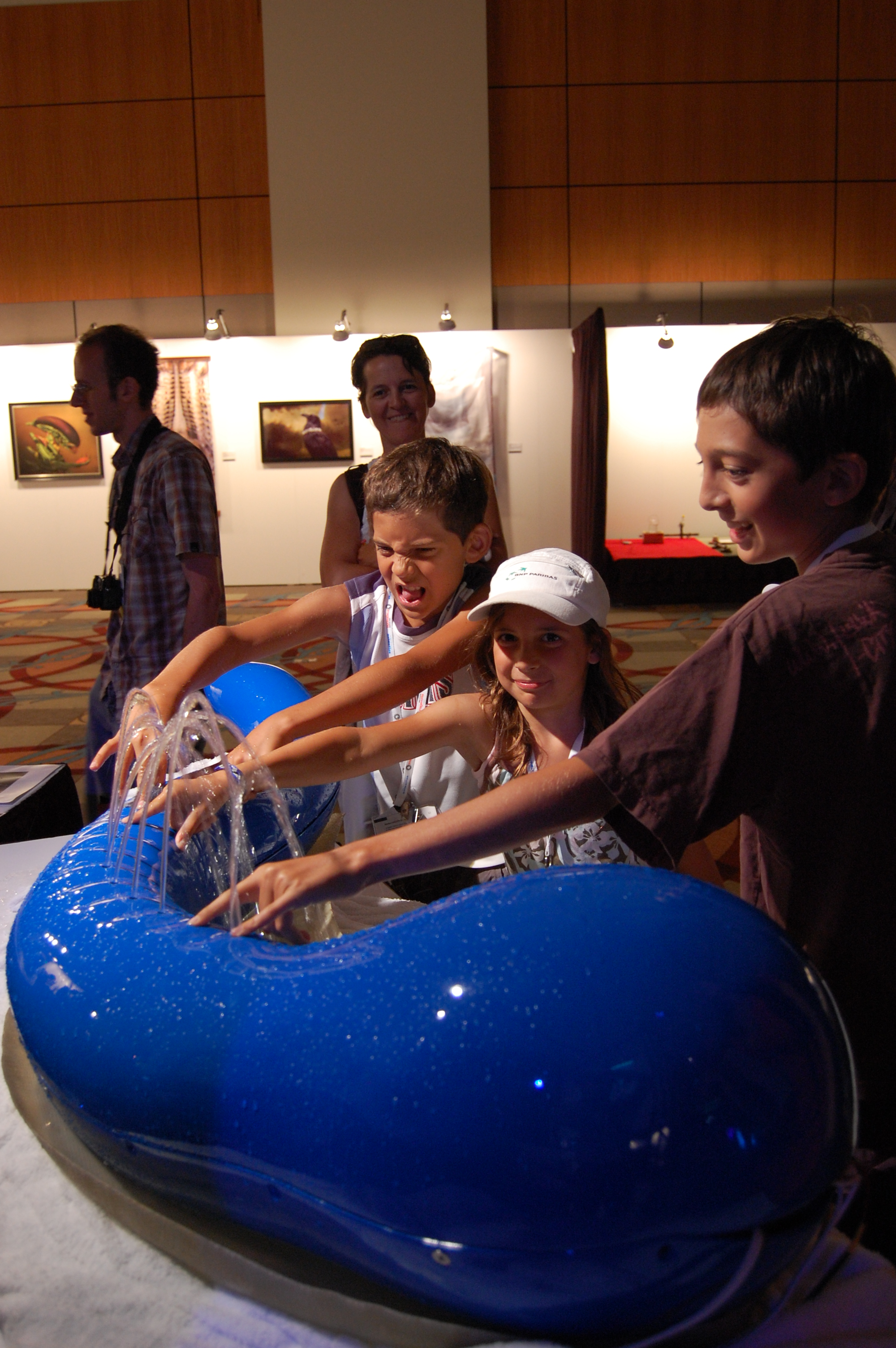 Siggraph Conference 2007 (7–11 August) in San Diego